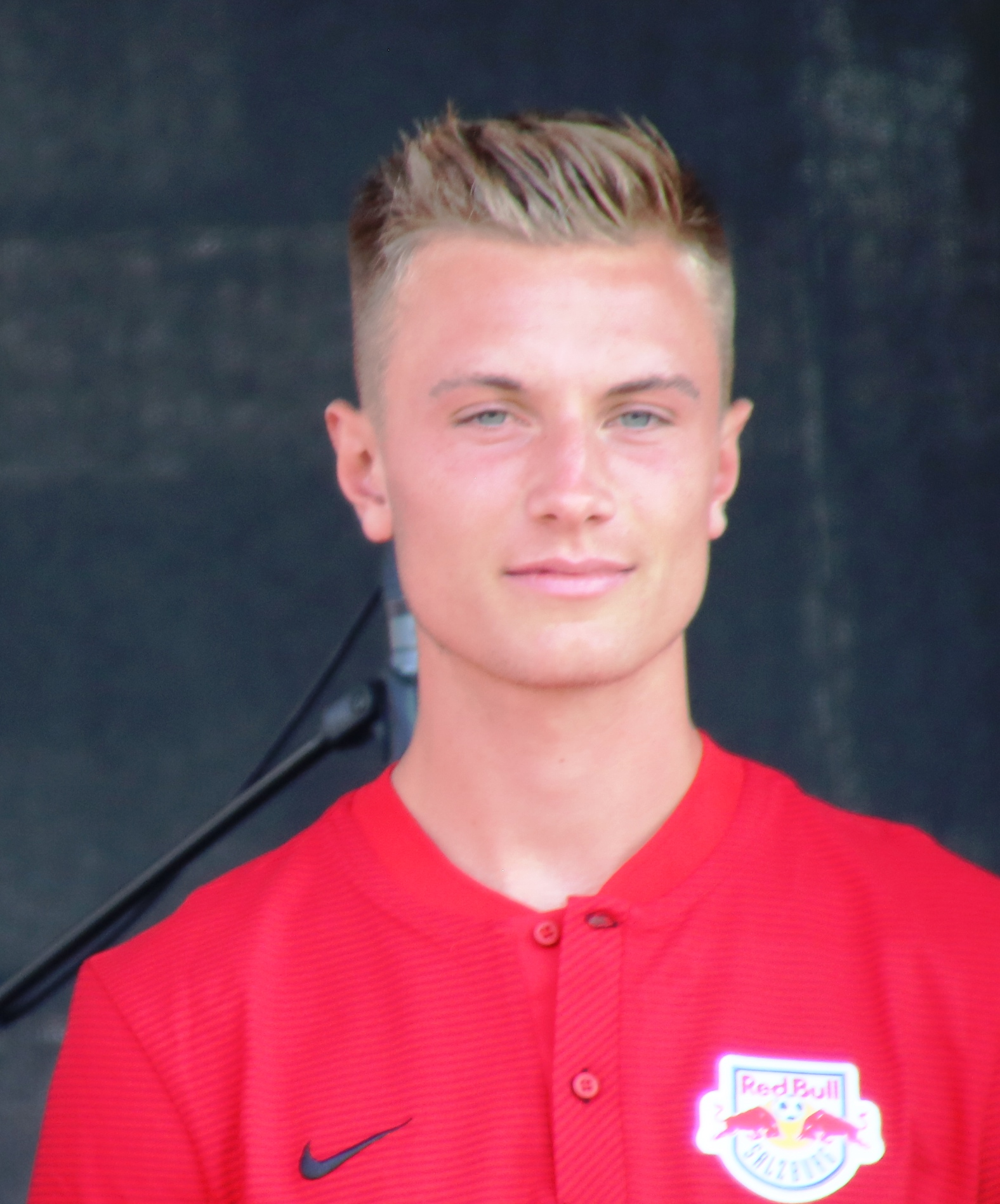 Open Day FC Red Bull Salzburg